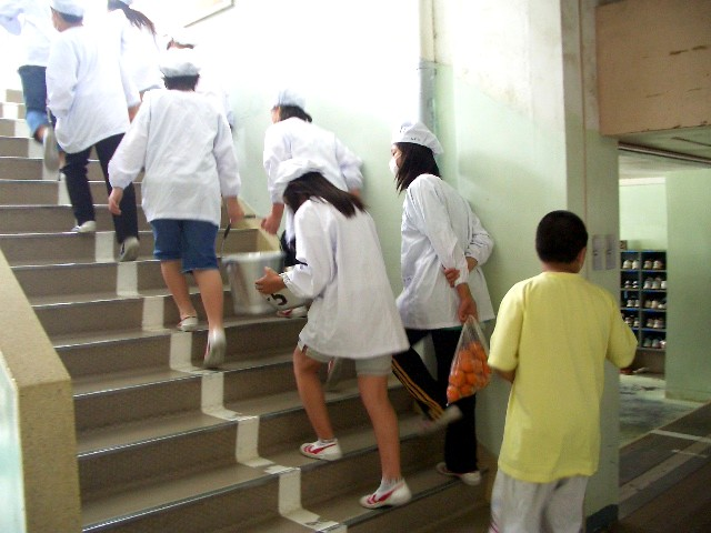 Kyushoku Toban (students weekly take turns to serve hot lunch to their classmates) are bringing hot lunch upstairs to the classroom.School Lunch time